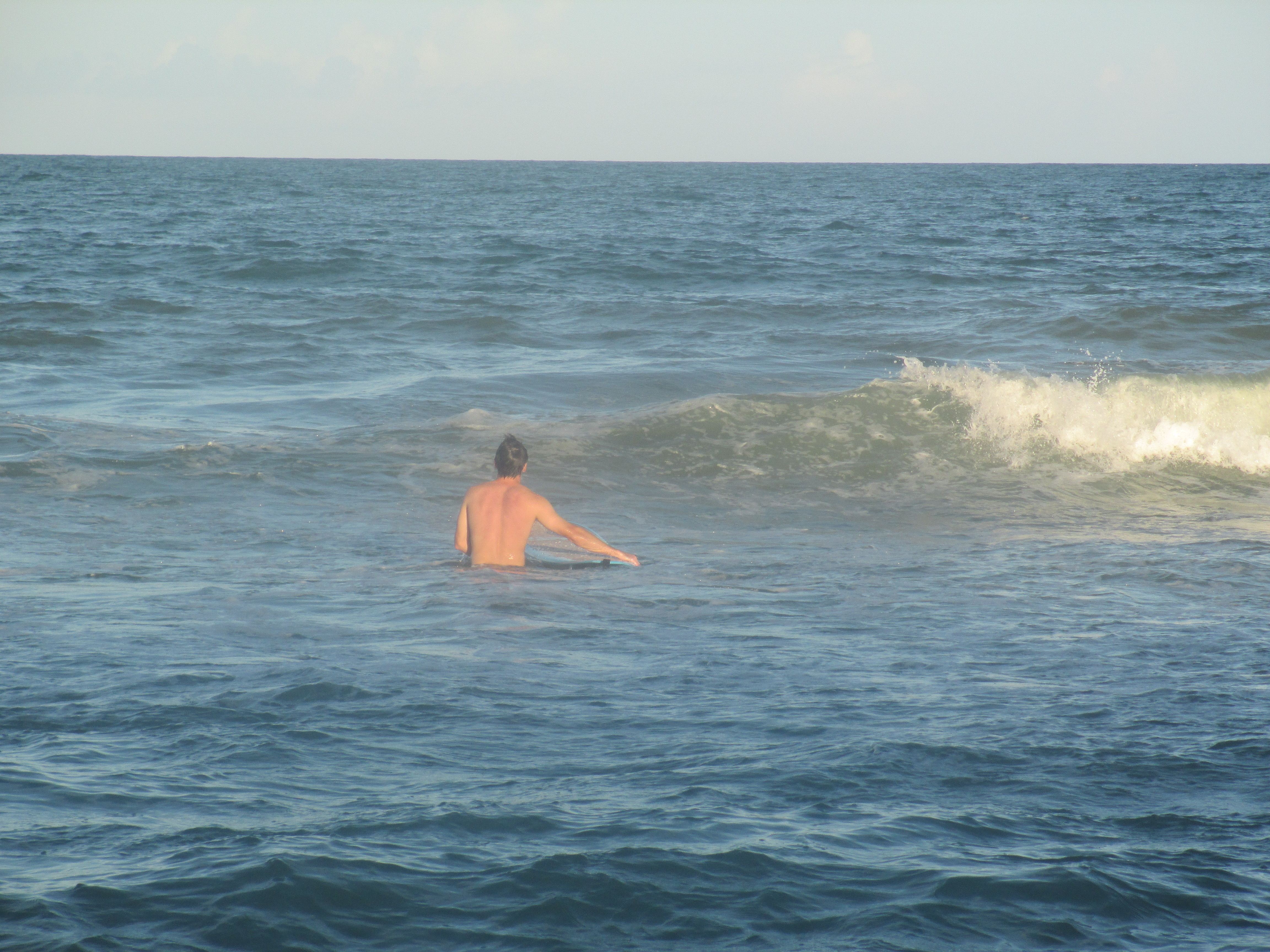 I took photo at Carolina Beach, NC, with Canon camera.